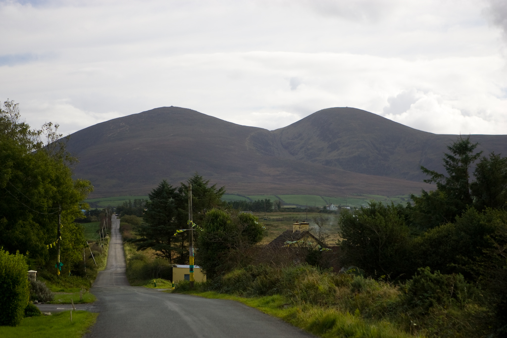 Called after the goddess Danu or Anu, these are on the Cork/Kerry border near Rathmore